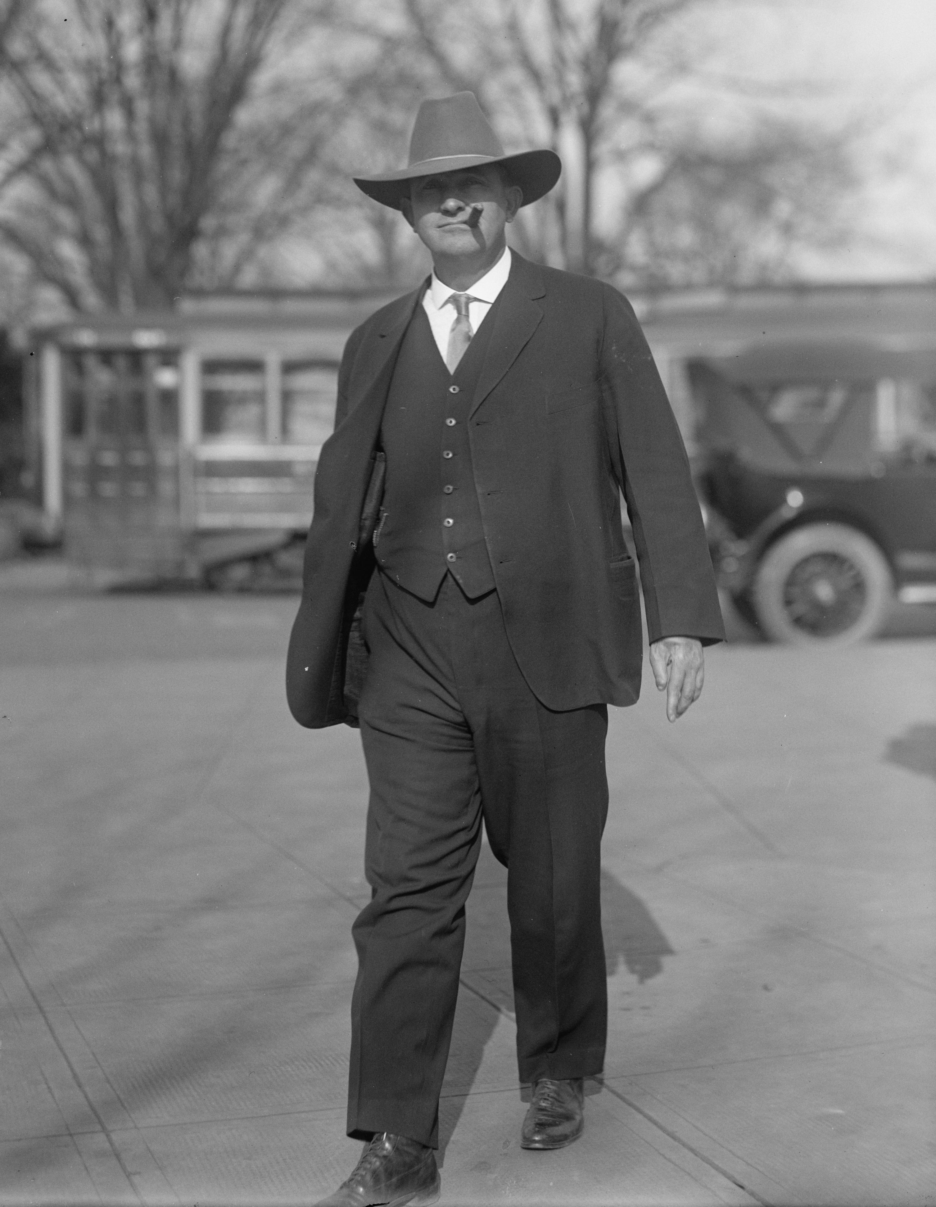 Carl Hayden. Rep. from Arizona, 1912-1927; Senator, 1927-1969